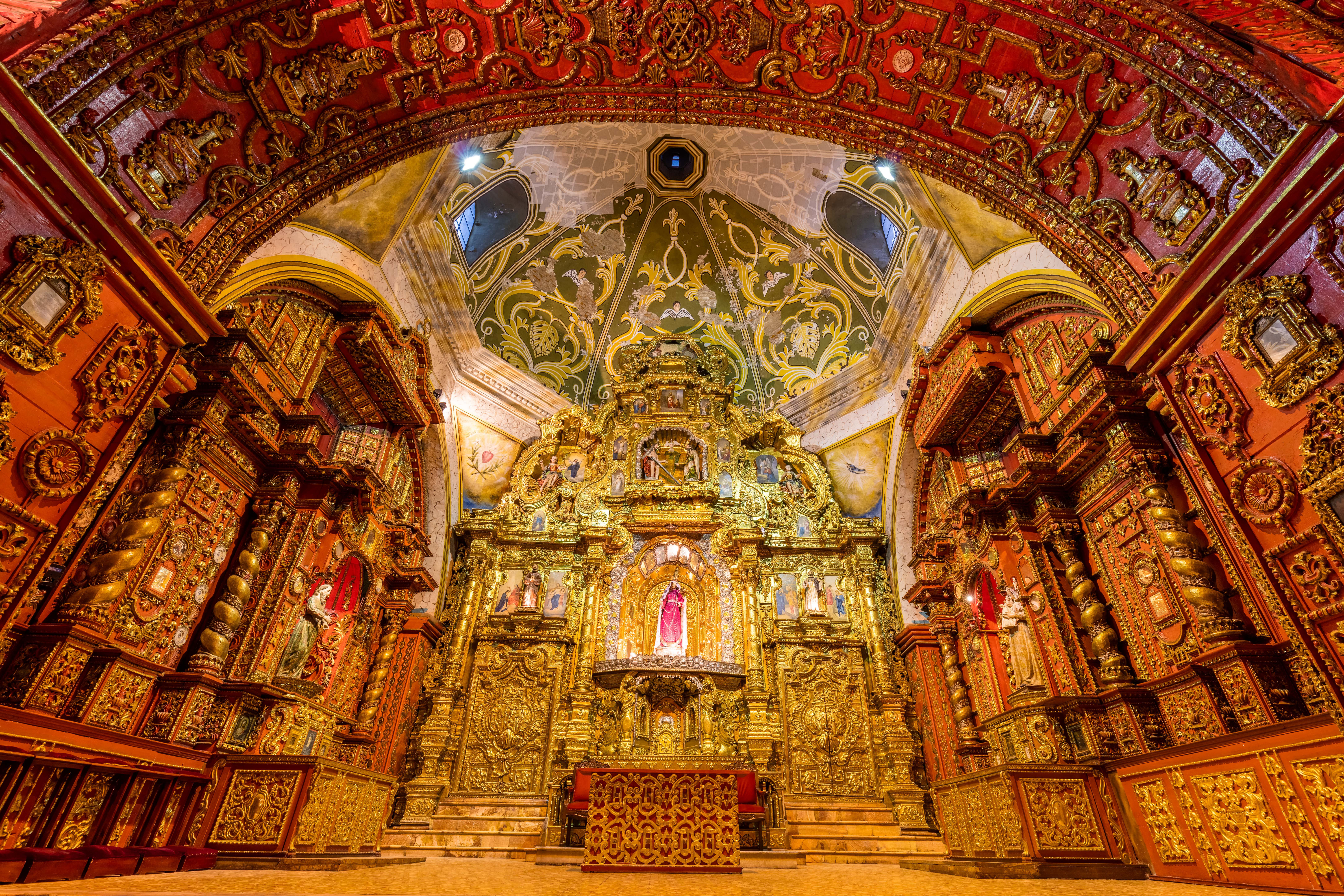 Church of Santo Domingoo, Quito, Ecuador